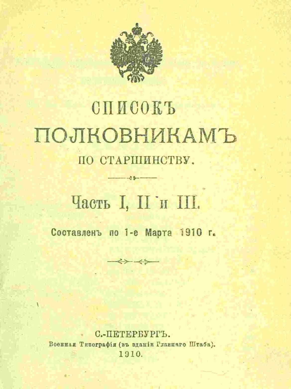 List of colonels of the Russian Imperial Army 1910, front page.